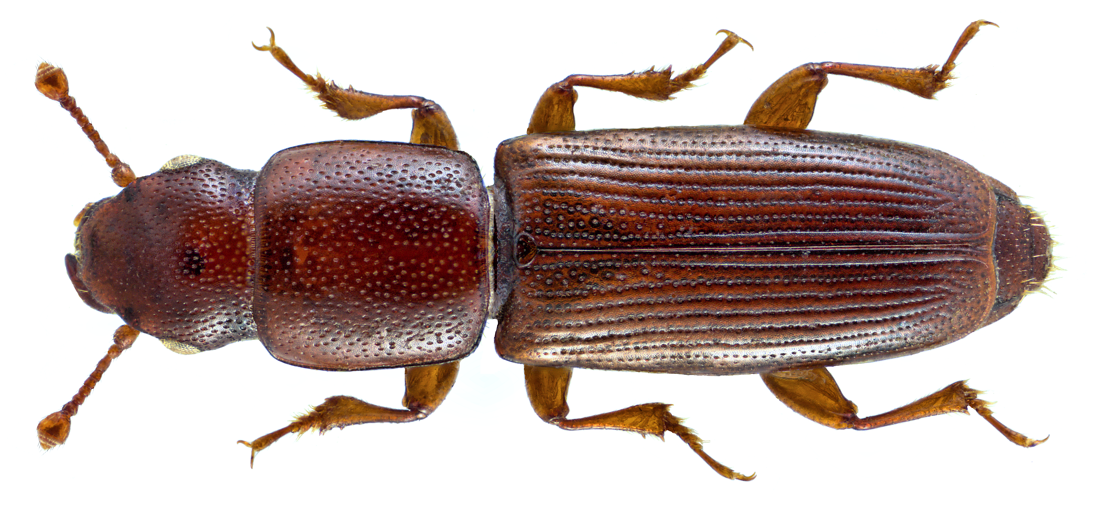 Family: Monotomidae Size: 3,9 mm (2,8-4,0 mm) Origin: Europe Ecology: under coniferous wood bark Location: Germany, Bavaria, Upper Franconia, Kulmbach leg.det. U.Schmidt, 28.IV.1996 Photo: U.Schmidt, 2014